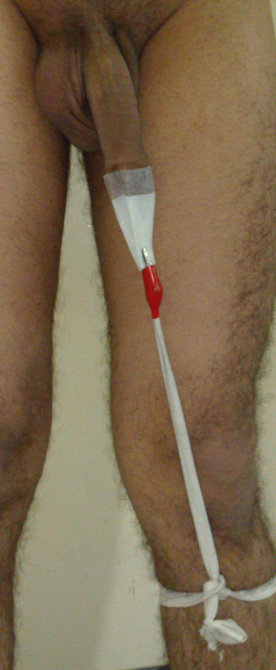 this picture shows a circumcised penis with t-tape attached with a leg strap